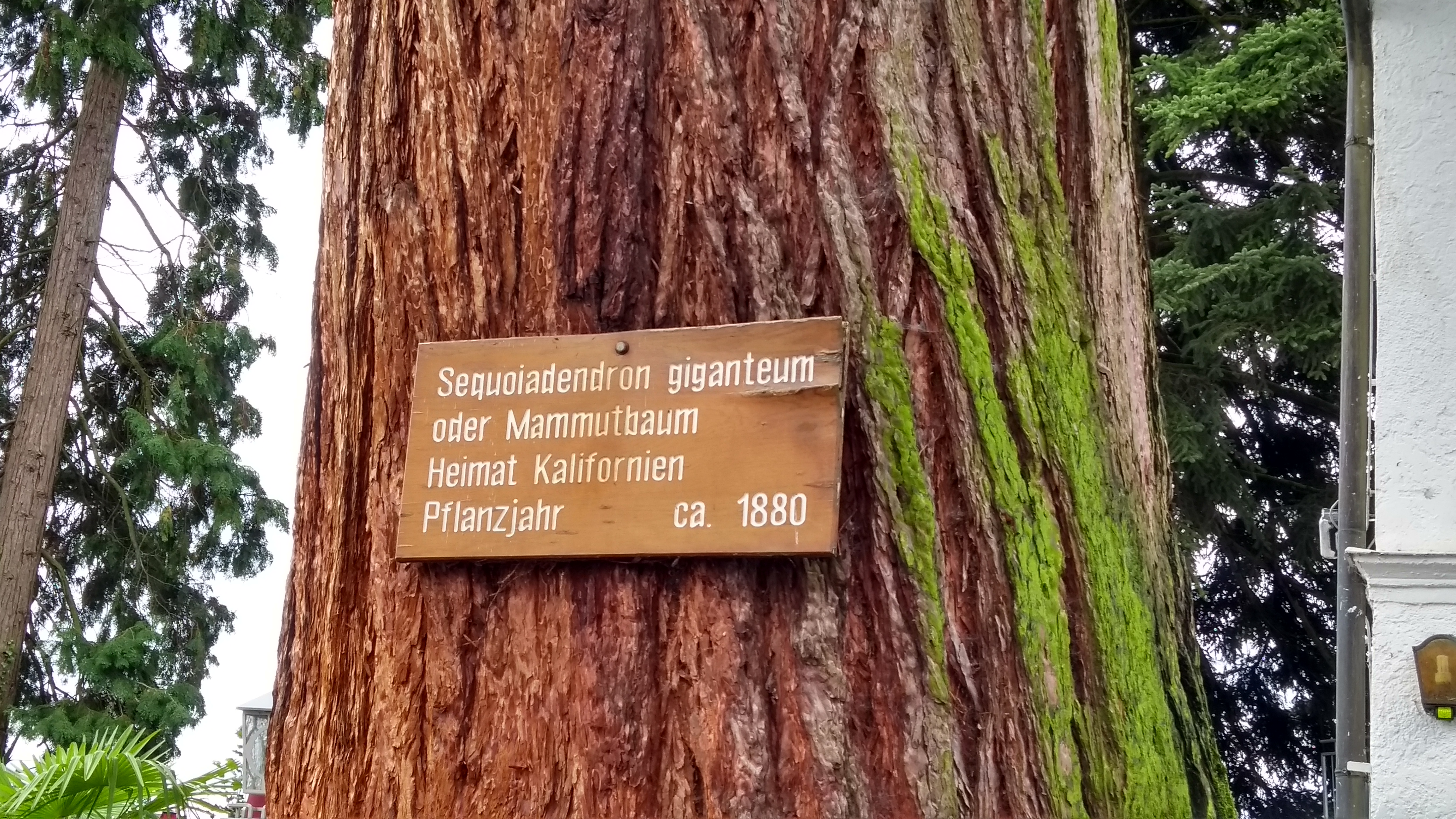 This is the sign on the Californian Sequoia in Nonnenhorn on Lake Constance that was originally planted in 1880.